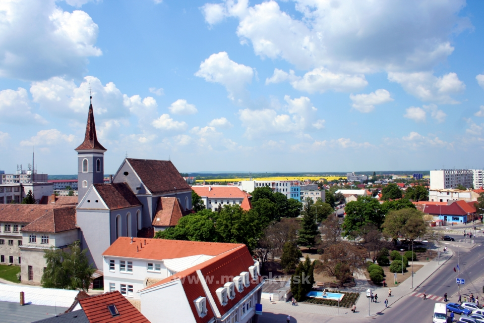 Malacky panorama